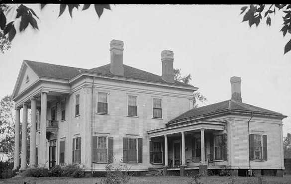 Bailey-Tebeault House, Meriwether Street, Griffin (Spalding County, Georgia) Image (1936): HABS—Historic American Buildings Survey of Georgia, cropped.